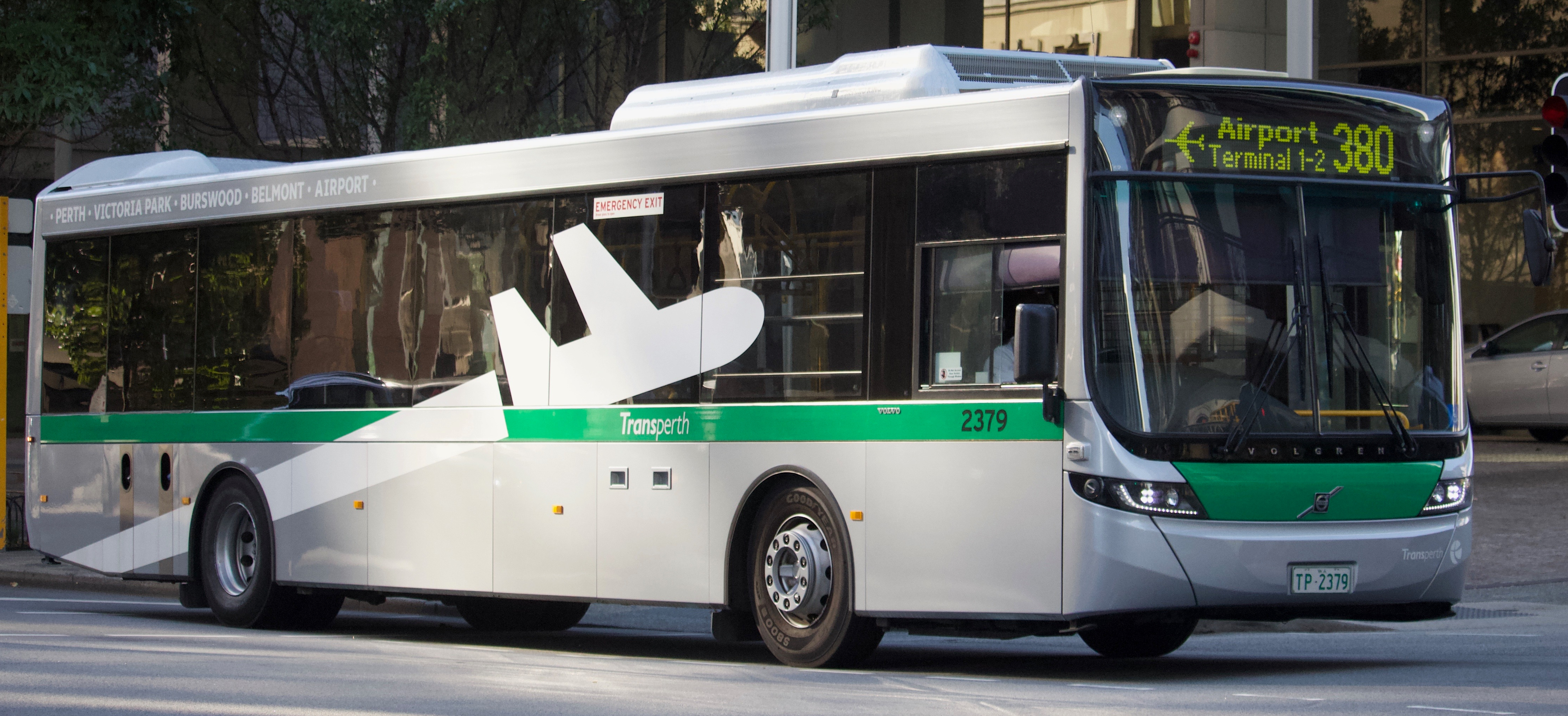 Transperth Volgren Optimus bodied Volvo B7RLE operating Airport shuttle on Route 380 in Perth, Western Australia. Under Path Transit